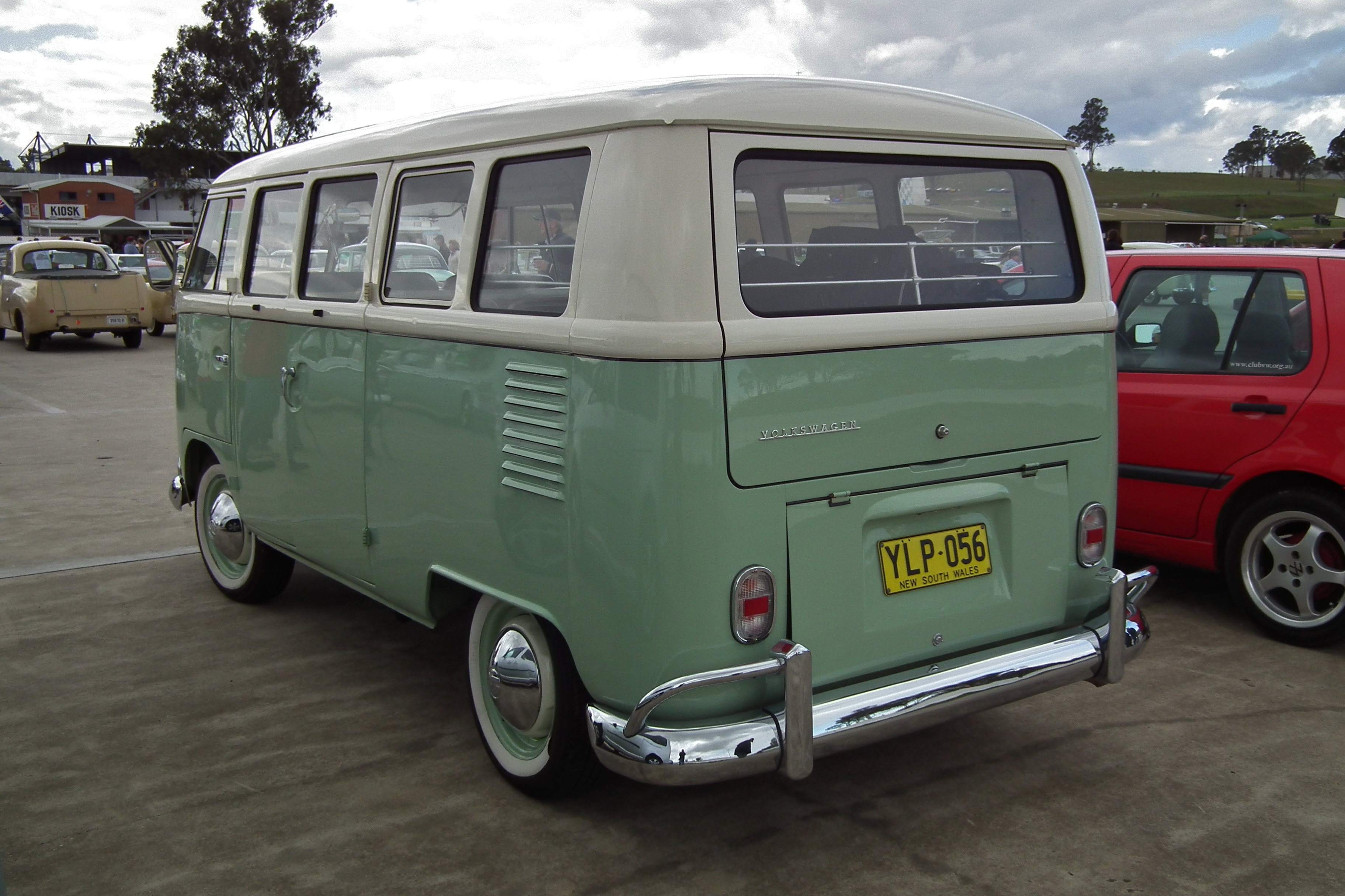 1964 Volkswagen T1 Transporter Kombi bus. Taken at Shannon's Eastern Creek Classic 2011, held at Eastern Creek Raceway Sydney.